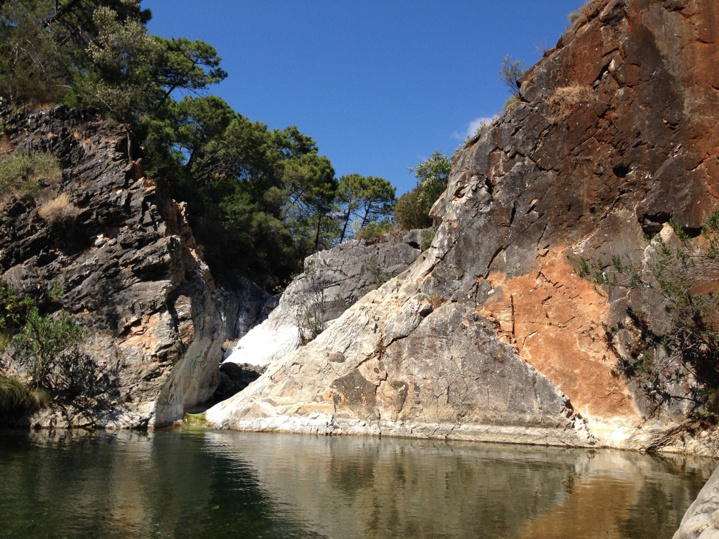 Castor River